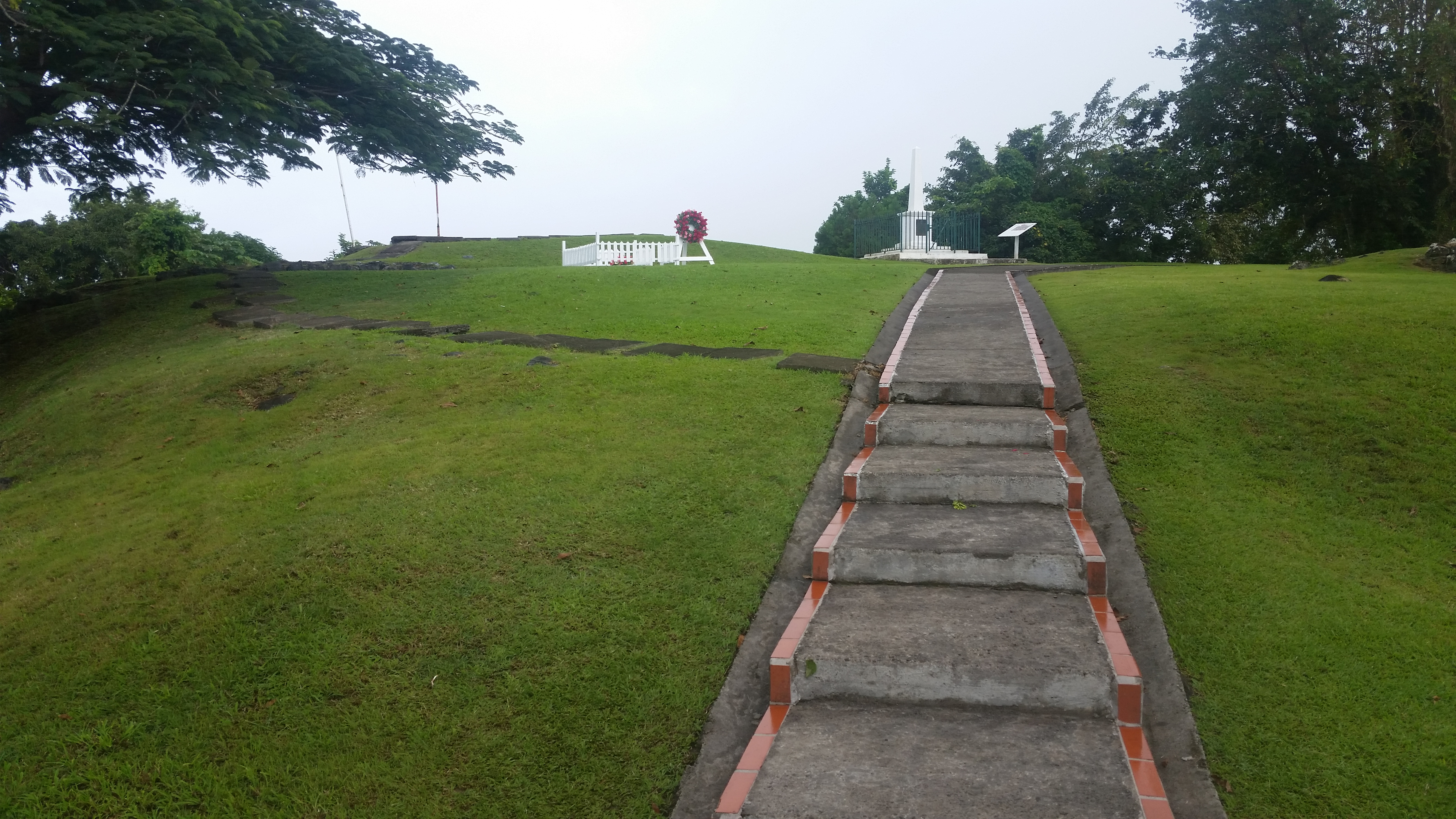 Morne Fortune's Shipley Battery on Fort Charlotte, with the grave of Derek Walcott, and the Inniskilling Monument